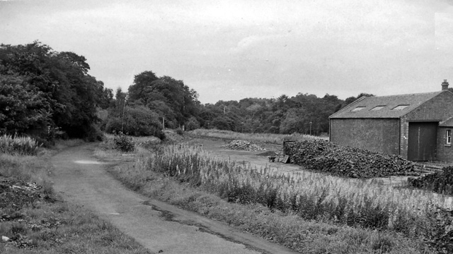 Track of former railway just east of Balerno Station, Westward just short of the Balerno terminus of the branch line from Slateford, which closed to passengers long before on 1/11/43, but Goods traffic continued until 4/12/67. No rails can be seen in this view, but possibly the building on the right was in the Goods Yard. The A70 was out of sight to the left, the Water of Leith to the right.